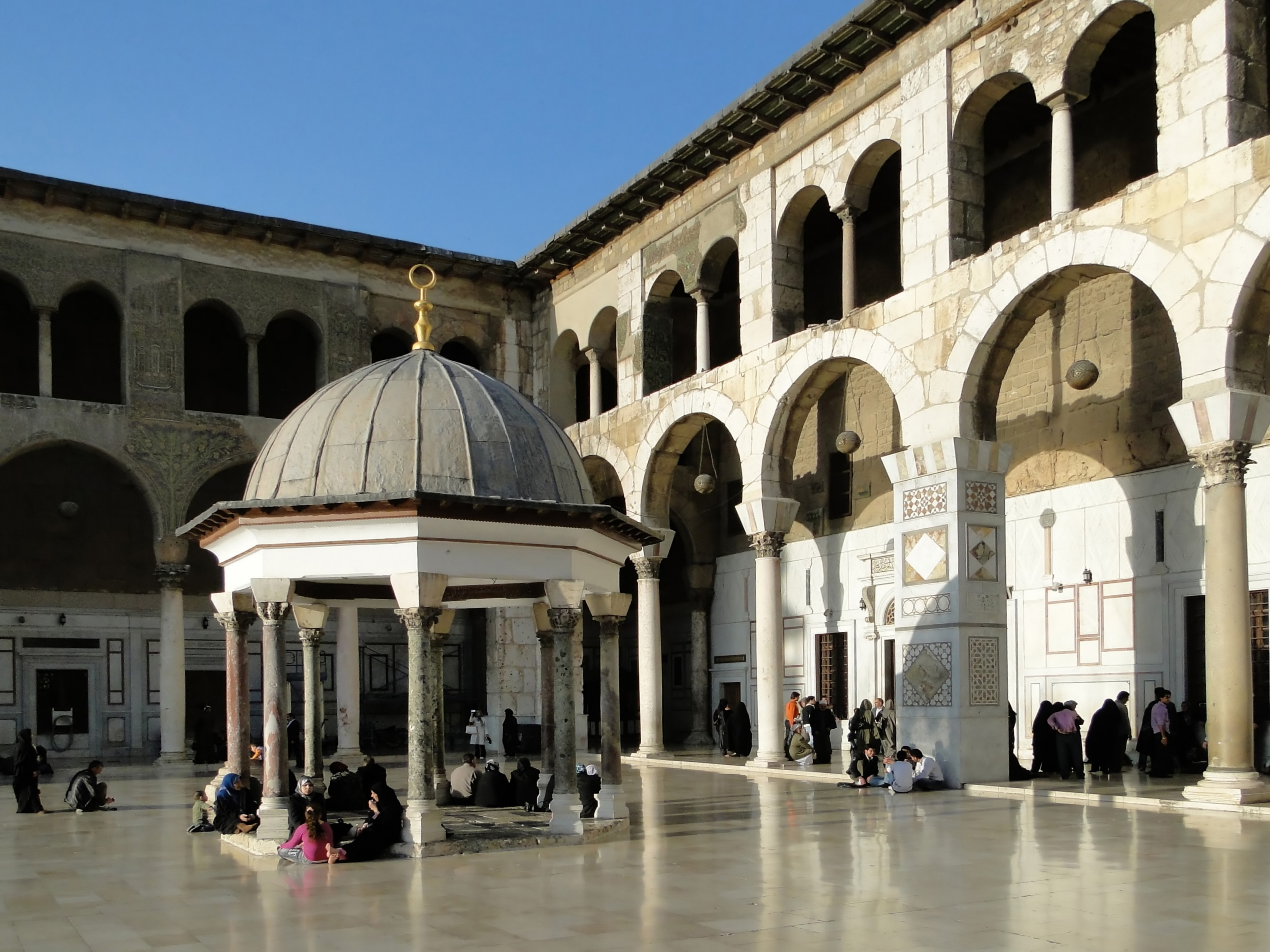 Dome of the Clocks, Umayyad Mosque, Damascus, Syria